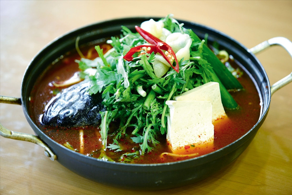 Stew consisting of seasonal freshwater fish, radish, and suk-gat (edible chrysanthemum). It has a rich, spicy flavor.